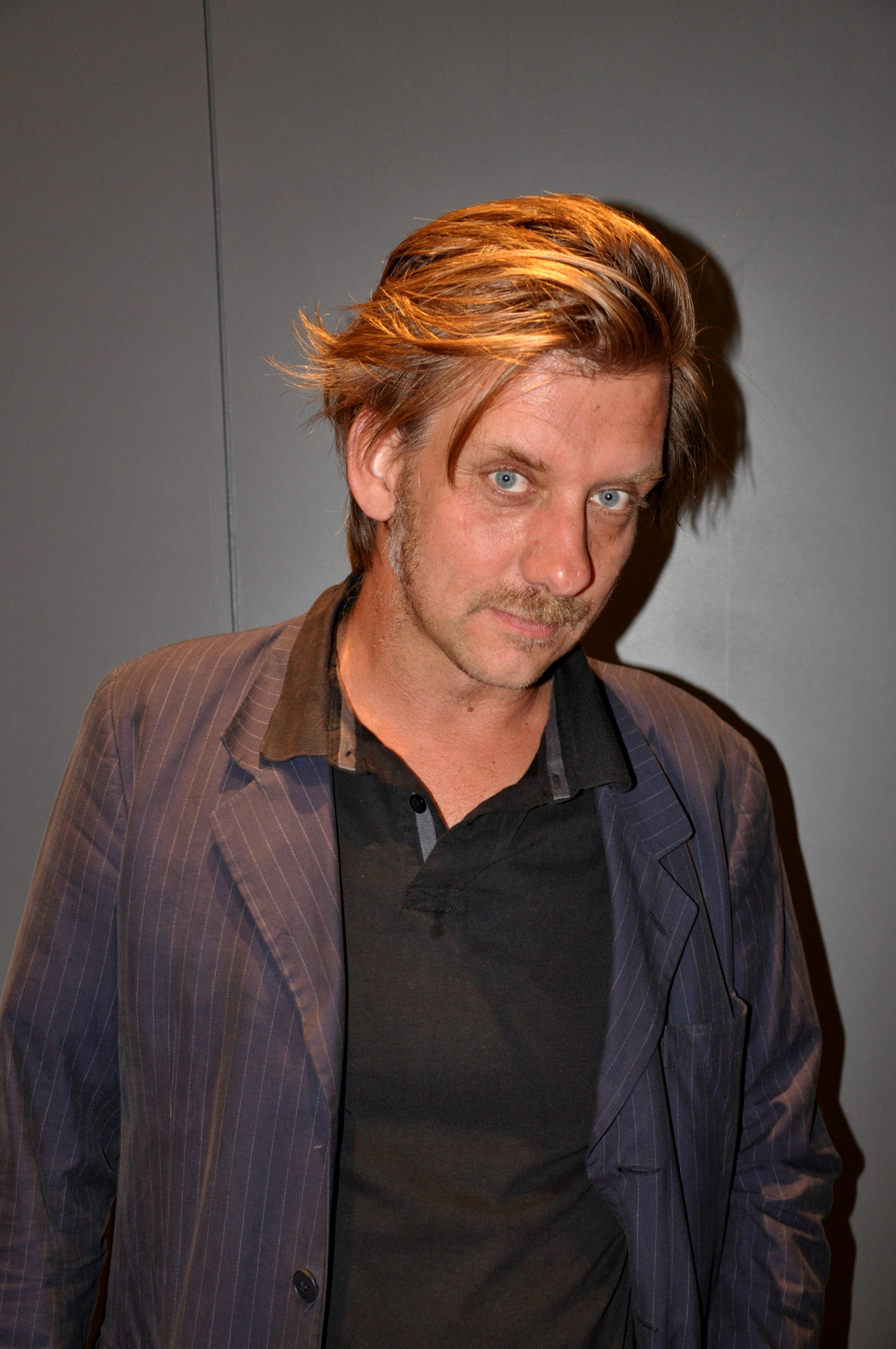 Julien Donada in Antibes, 2012.